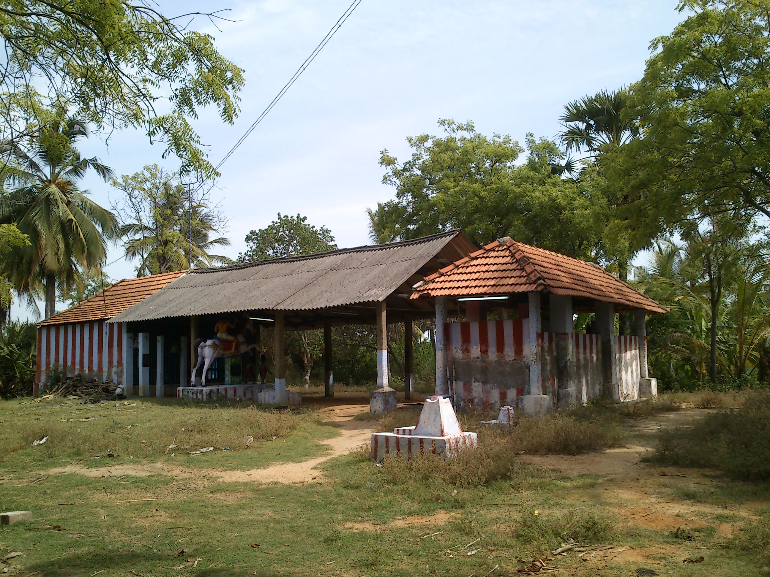 TEMPLE